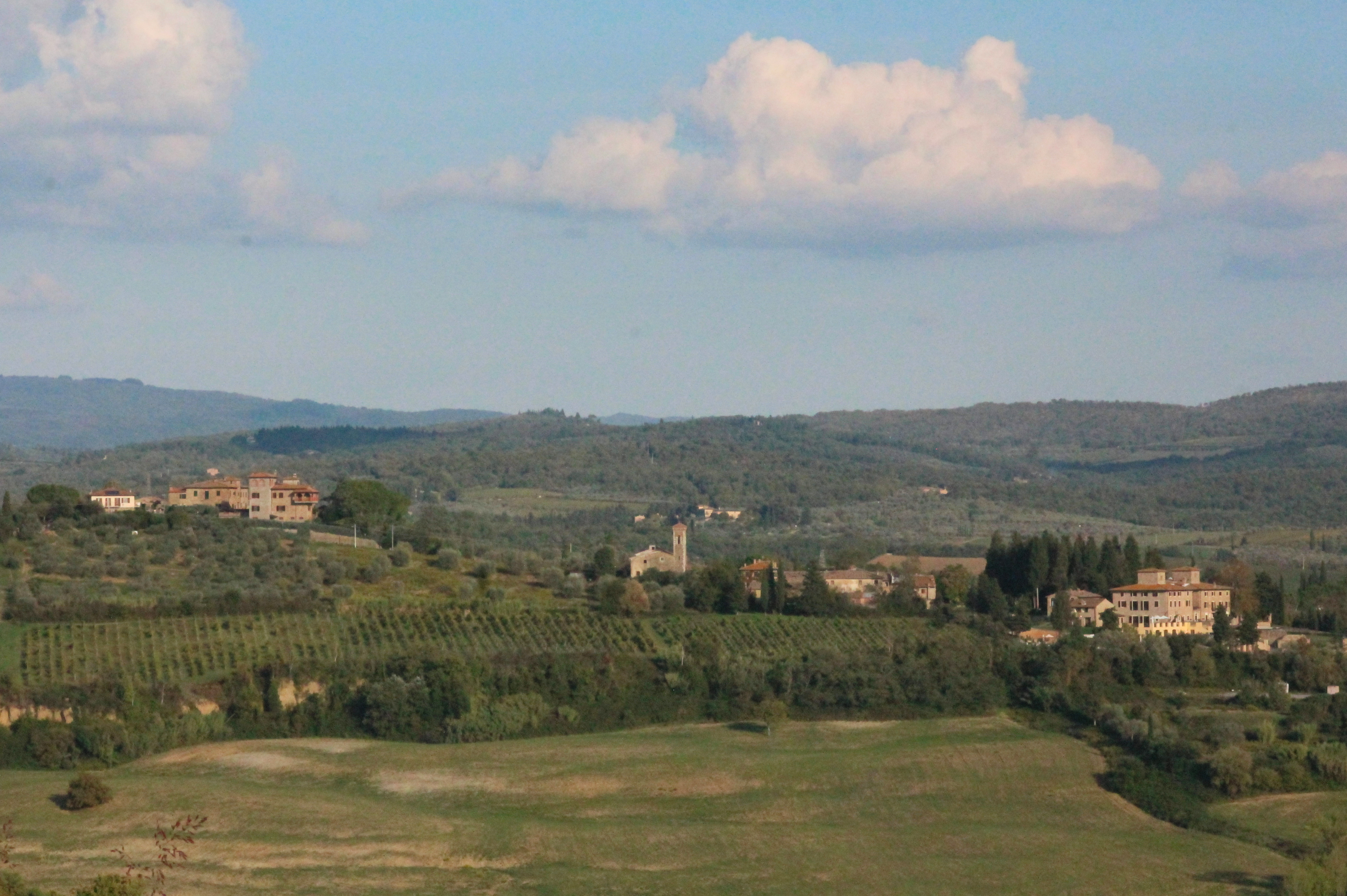 Panorama of Ponzano, the church San Filippo, and San Filippo a Ponzano, hamlet of Barberino Val d'Elsa, Metropolitan City of Florence, Tuscany, Italy